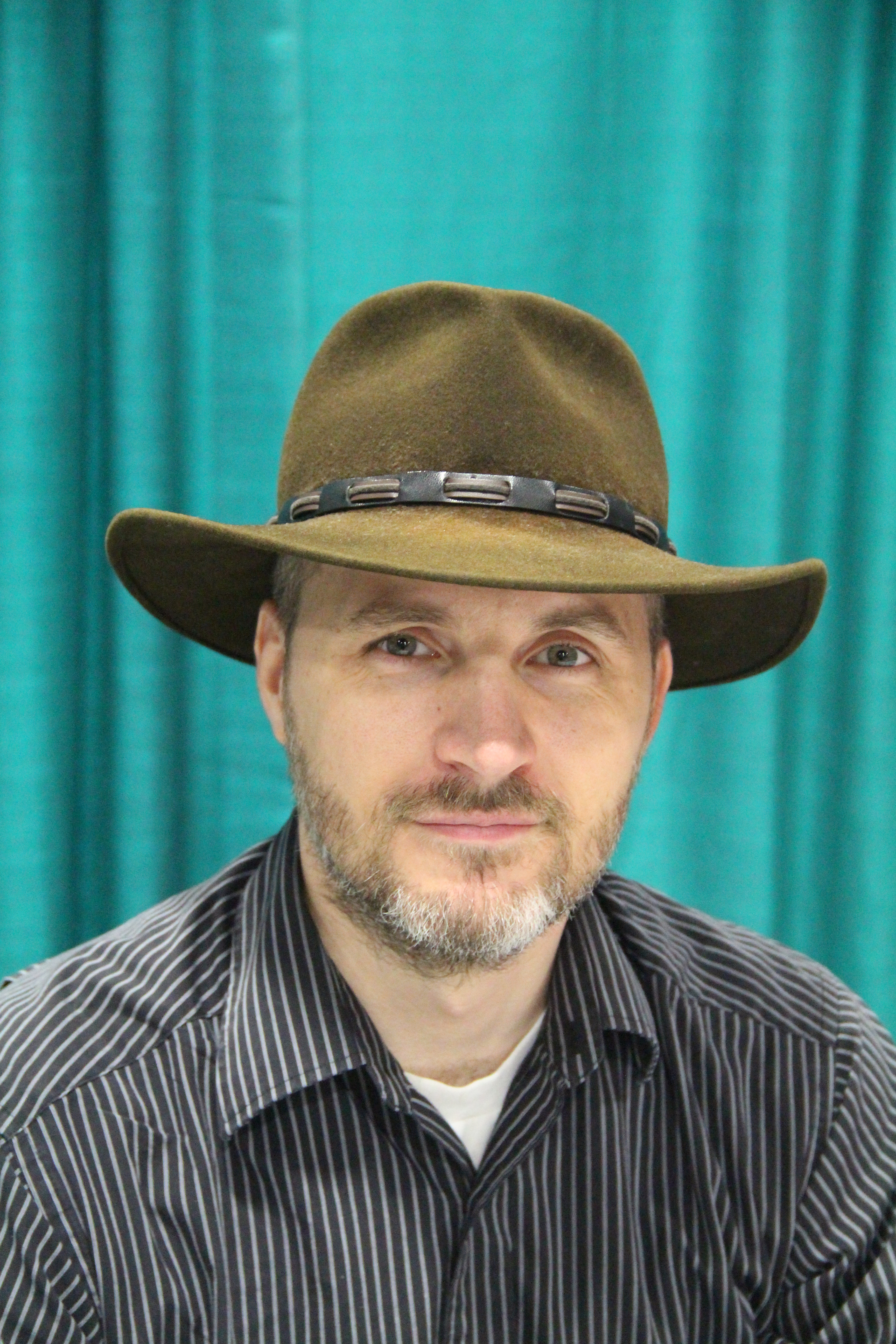 2015 Library of Congress National Book Festival September 5, 2015 Washington, DC